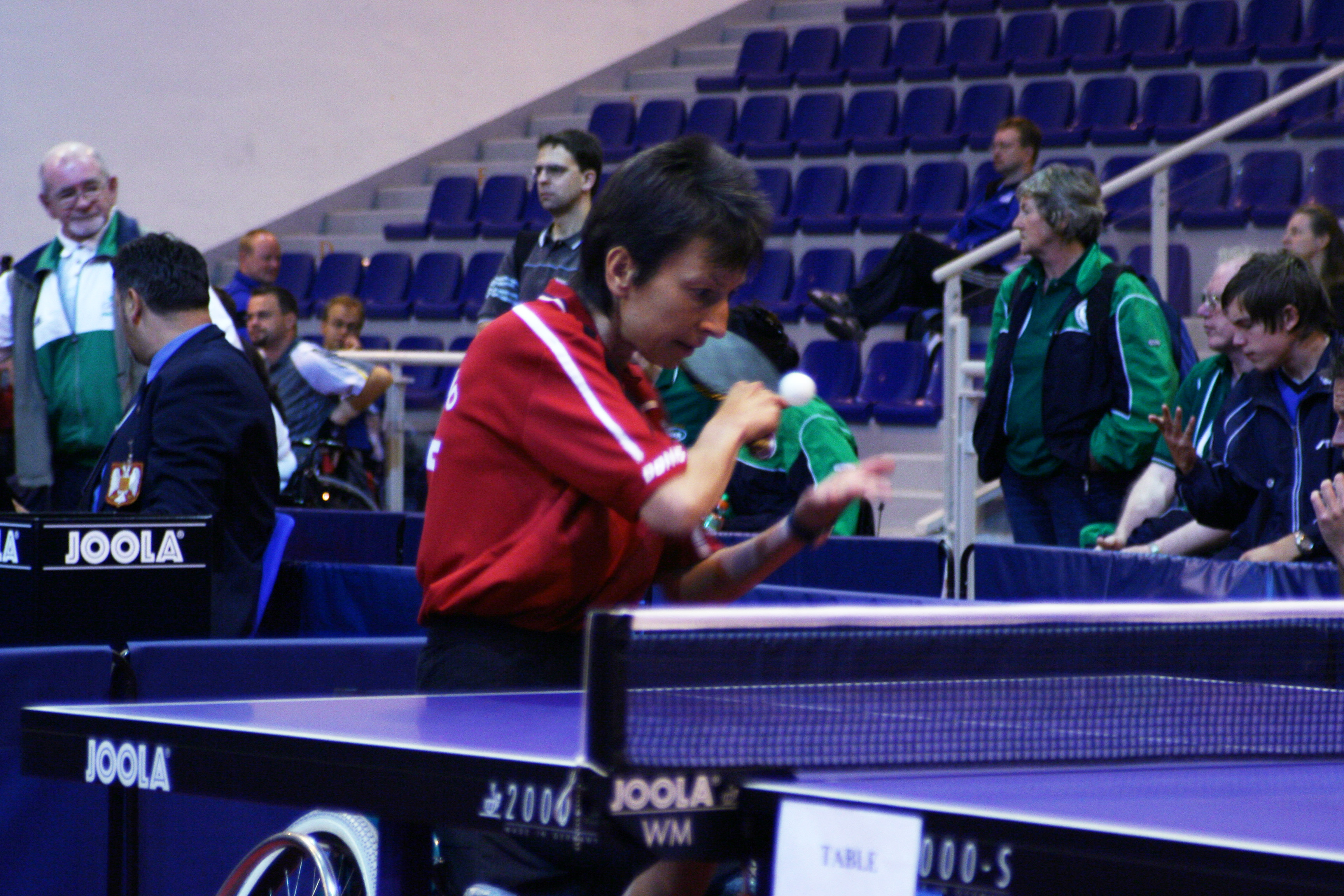 2005 Para Table Tennis European Championship in Jesolo (Italy) - 15-26 September 2005